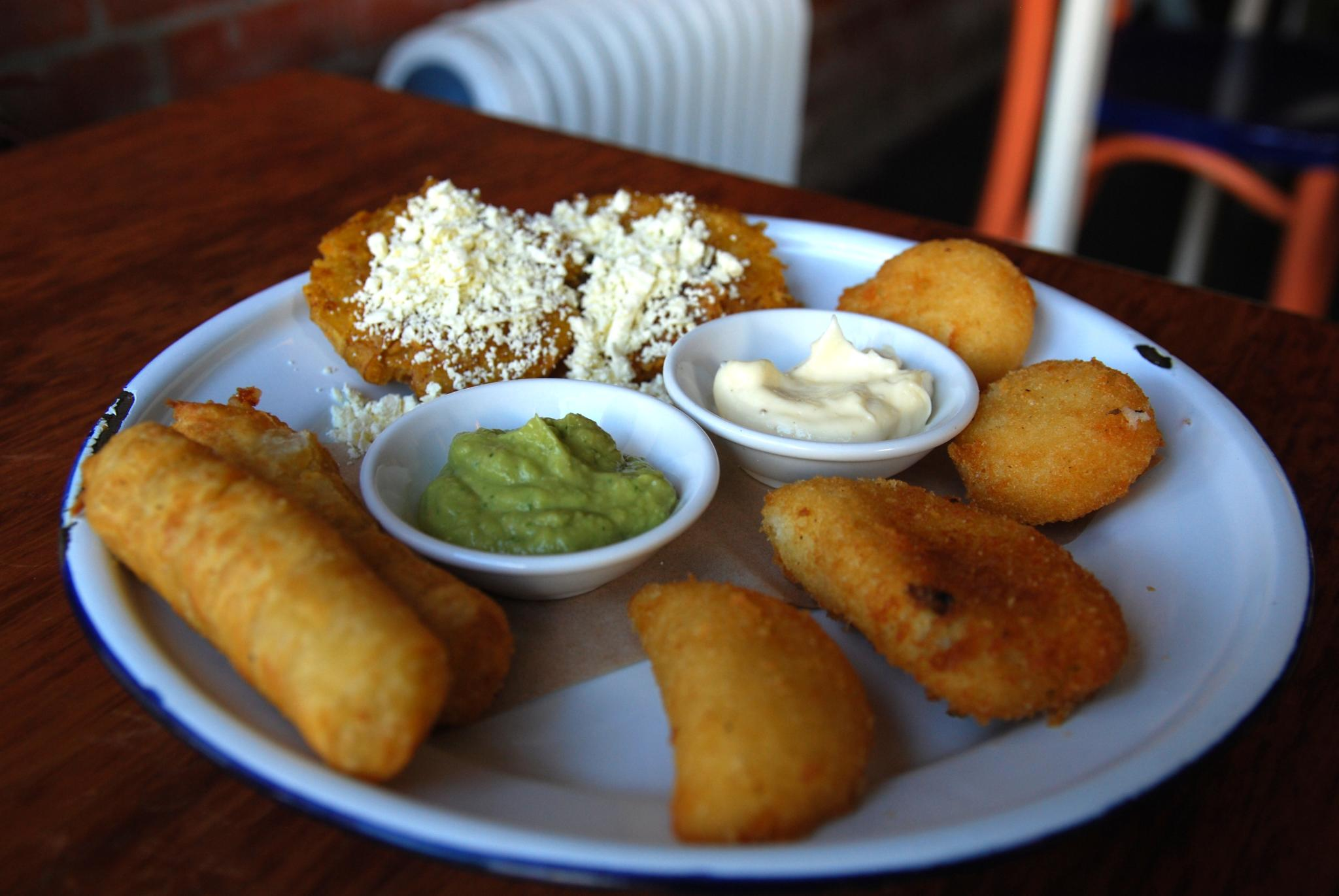 Mexican Dish: pasapalo medley, 2 arepitas, 2 tostones, 2 tequeños, 2 empanaditas - arepitas - small fried arepas with cheese - tostones - plantain slices served with a garlic sauce - tequeños - crispy cheese sticks wrapped in wheat dough - empanaditas - small filled corn pasties with a flaky crust